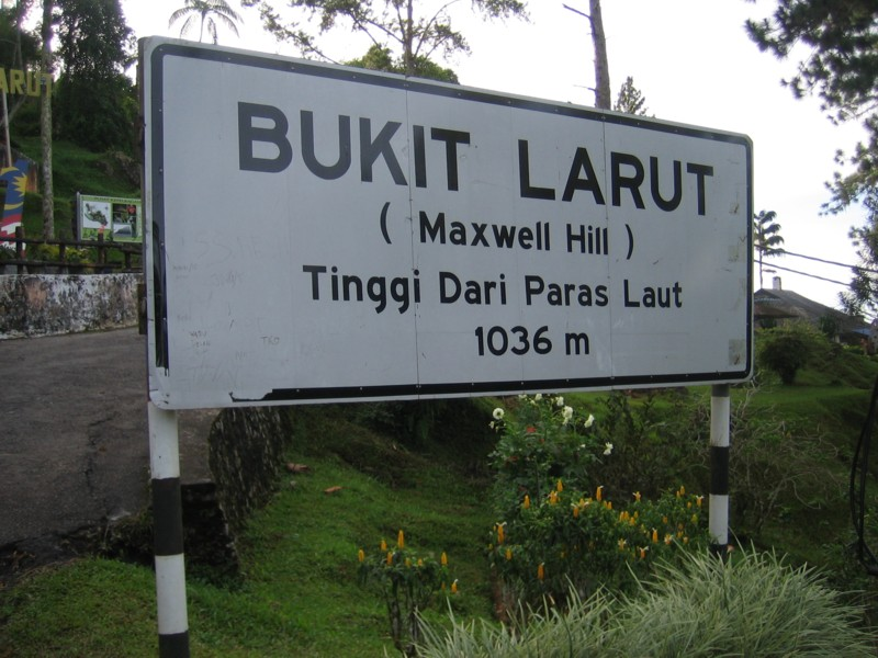 Signboard